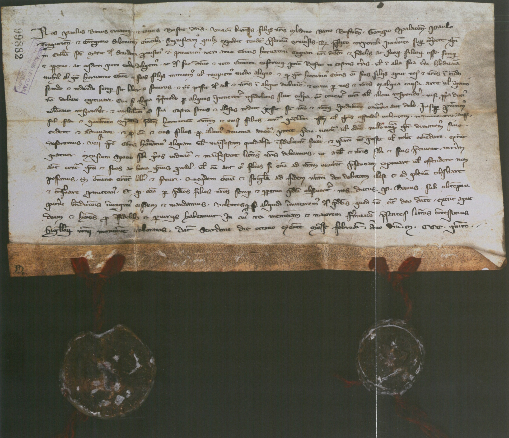 Charter issued by Croatian Ban Paul I Šubić to Hrvatin Stjepanić, Count of Donji Kraji. Issued in Skradin on 21 February 1305